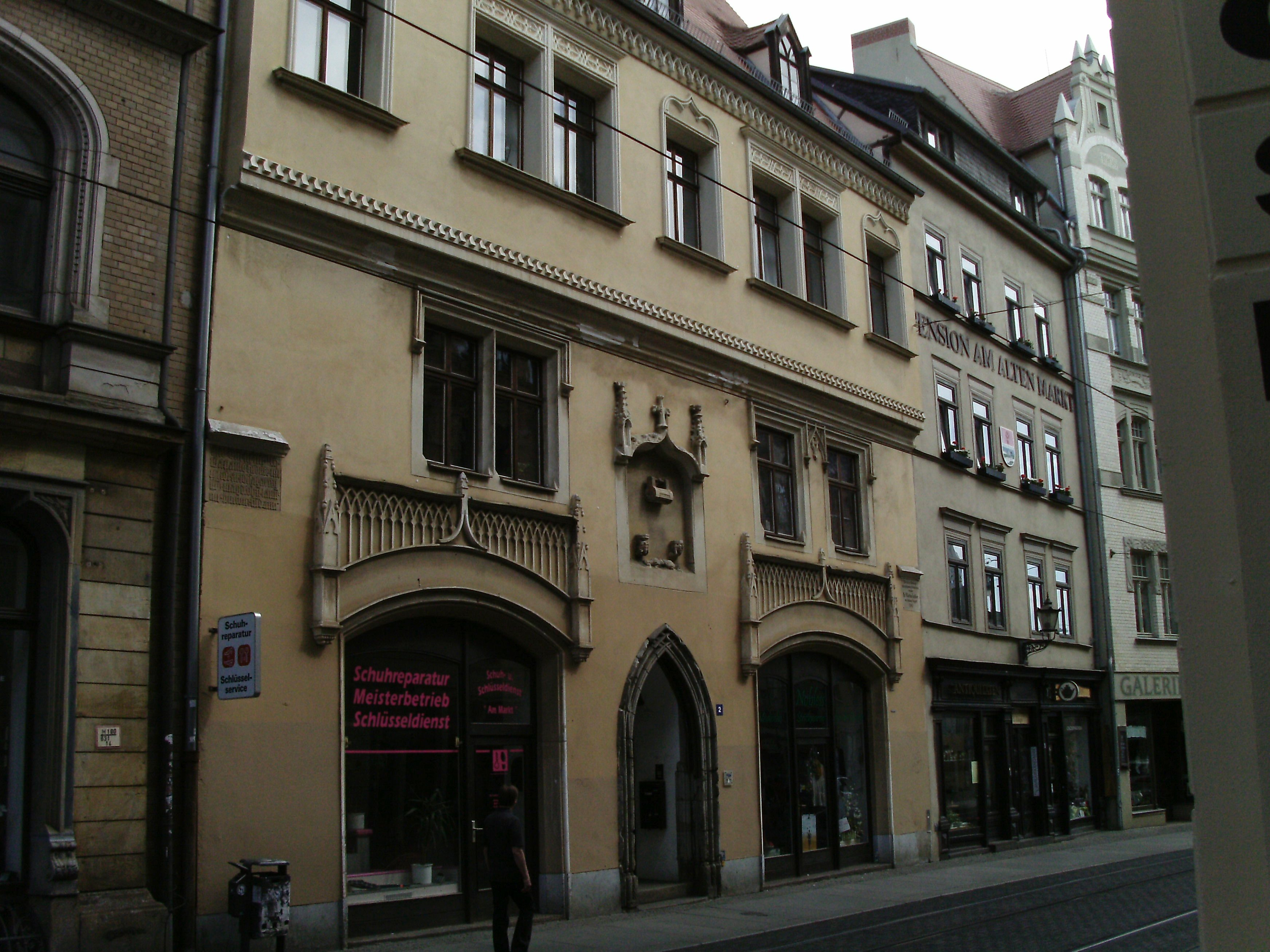 "Little Golden Castle", house no. 2 at Schmeerstrasse in Halle (Saale)